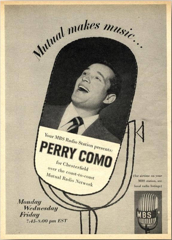 Low-resolution reproduction of newspaper advertisement for Perry Como's radio show on the Mutual Broadcasting System, 1954